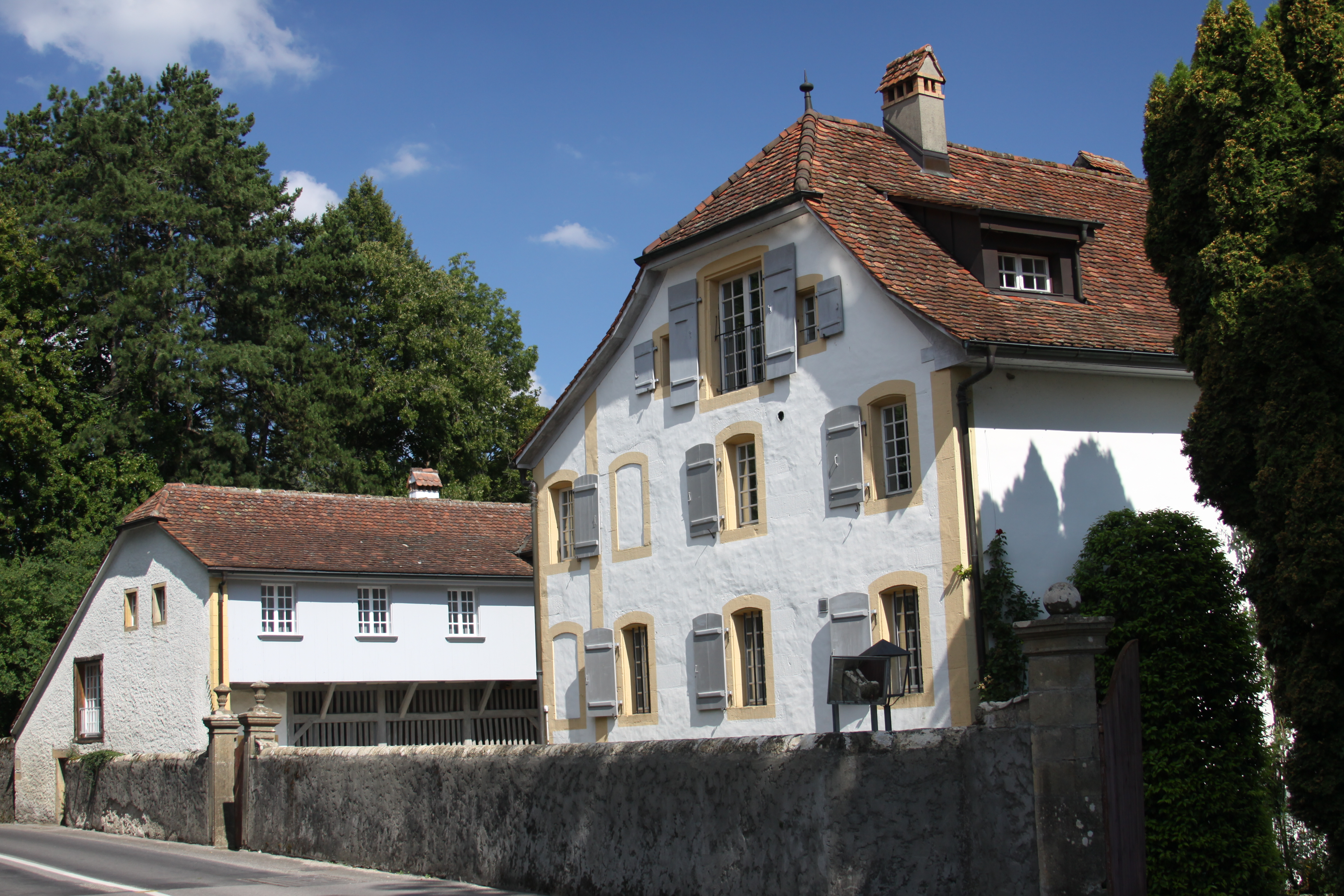 Les Rondas House, Route du Lac 361, Guévaux, Haut-Vully